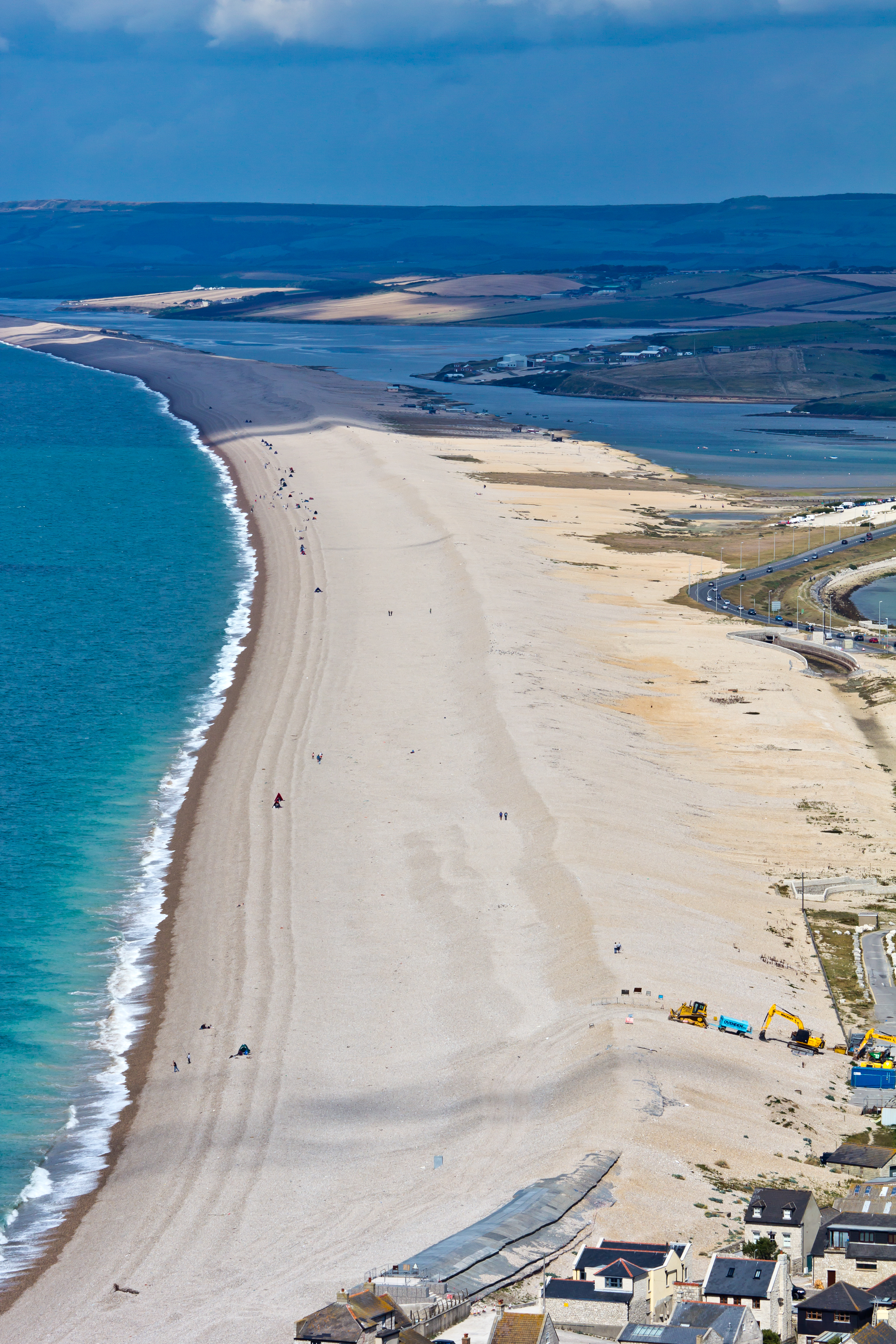 Chesil Beach, Isle of Portland, Dorset